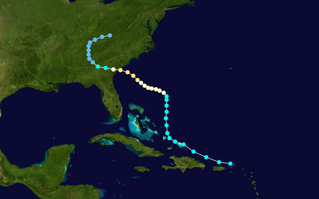 1940 Atlantic hurricane 3 track. Uses the color scheme from the Saffir-Simpson Hurricane Scale.